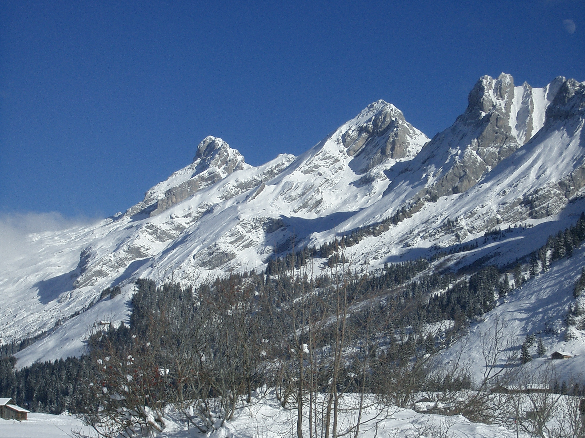 my own photograph